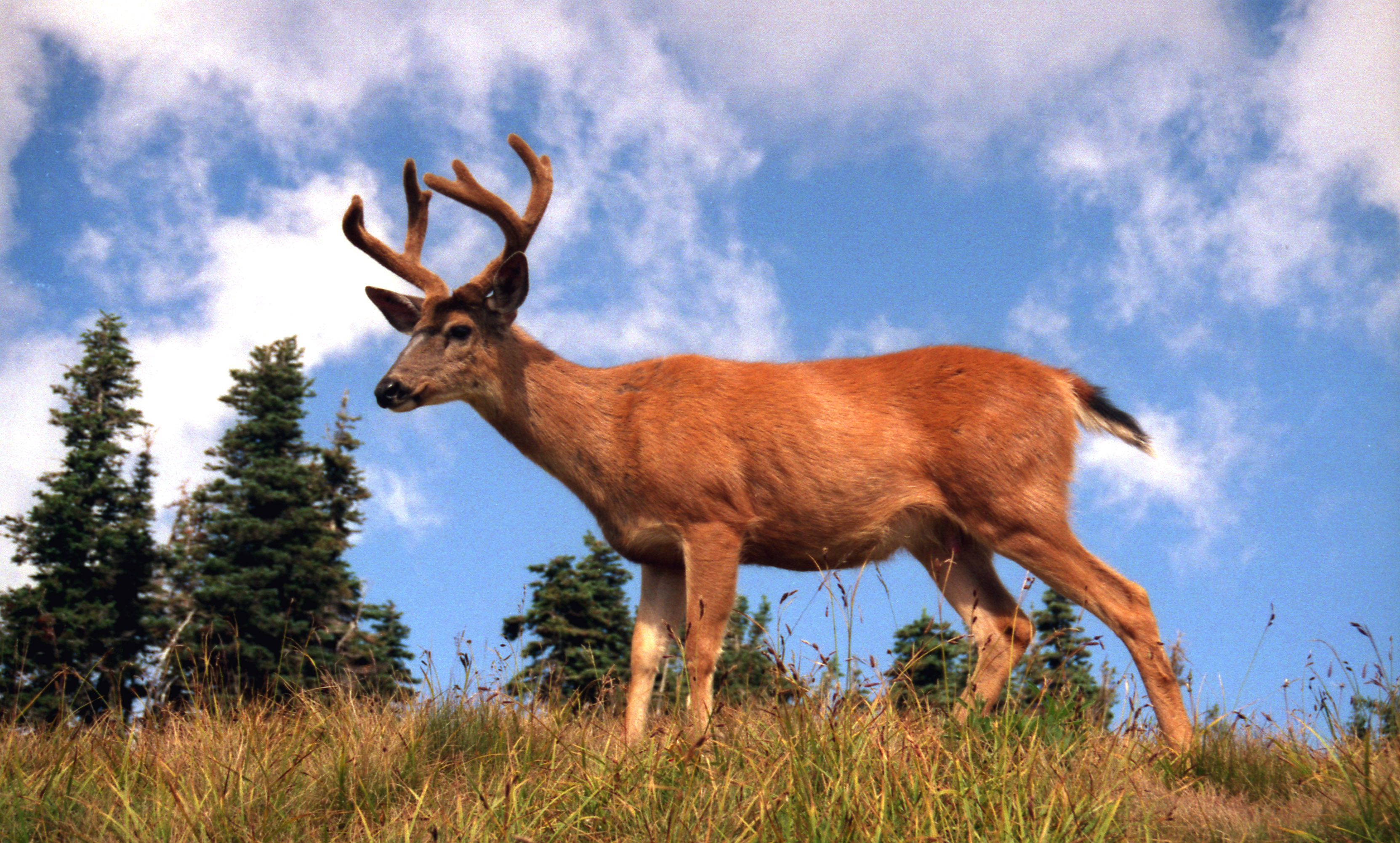 Columbia Black-tailed Deer - Hurricane Ridge - Olympic National Park, Washington.